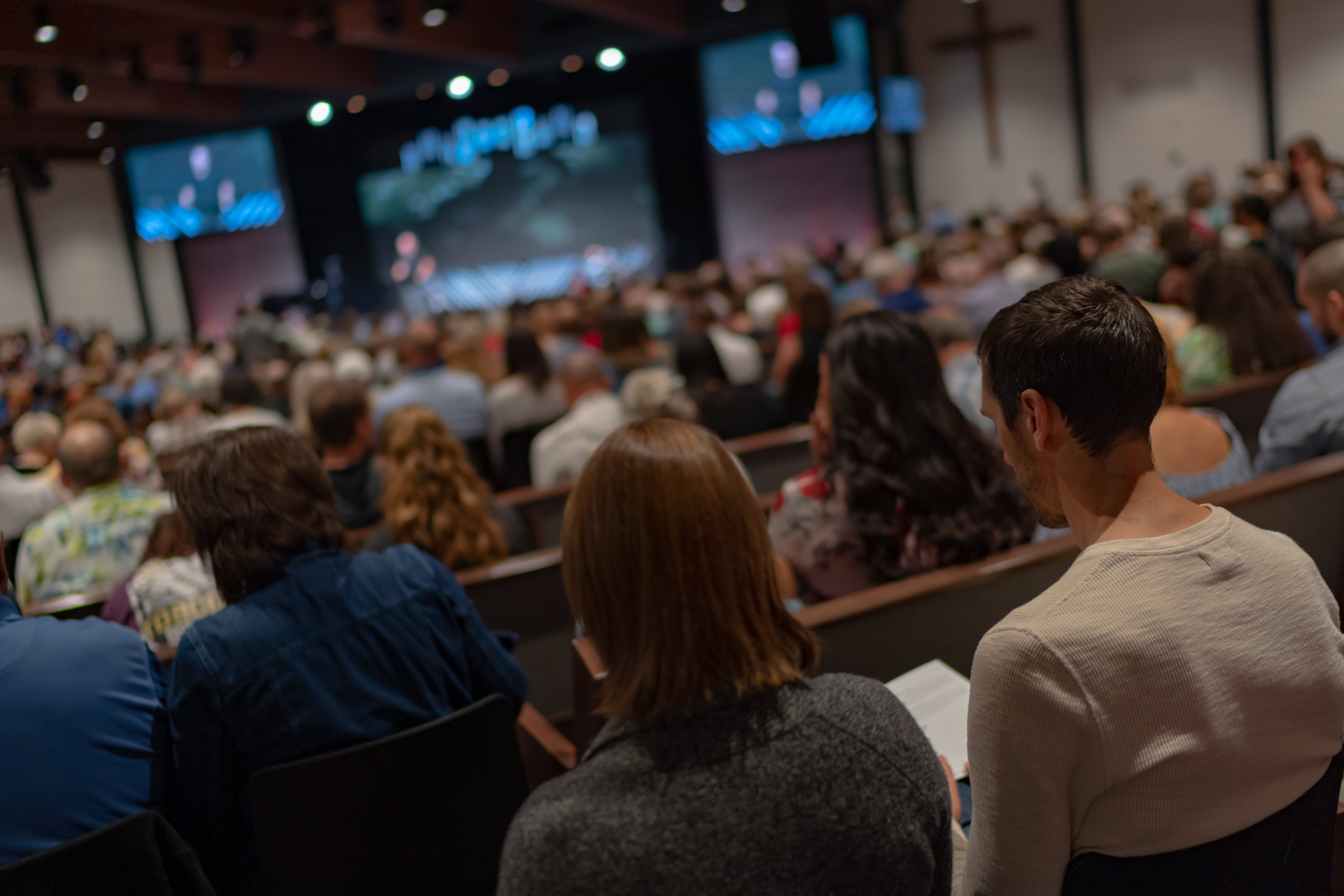 A typical Sunday morning service at Beaverton Foursquare, known as b4 Church